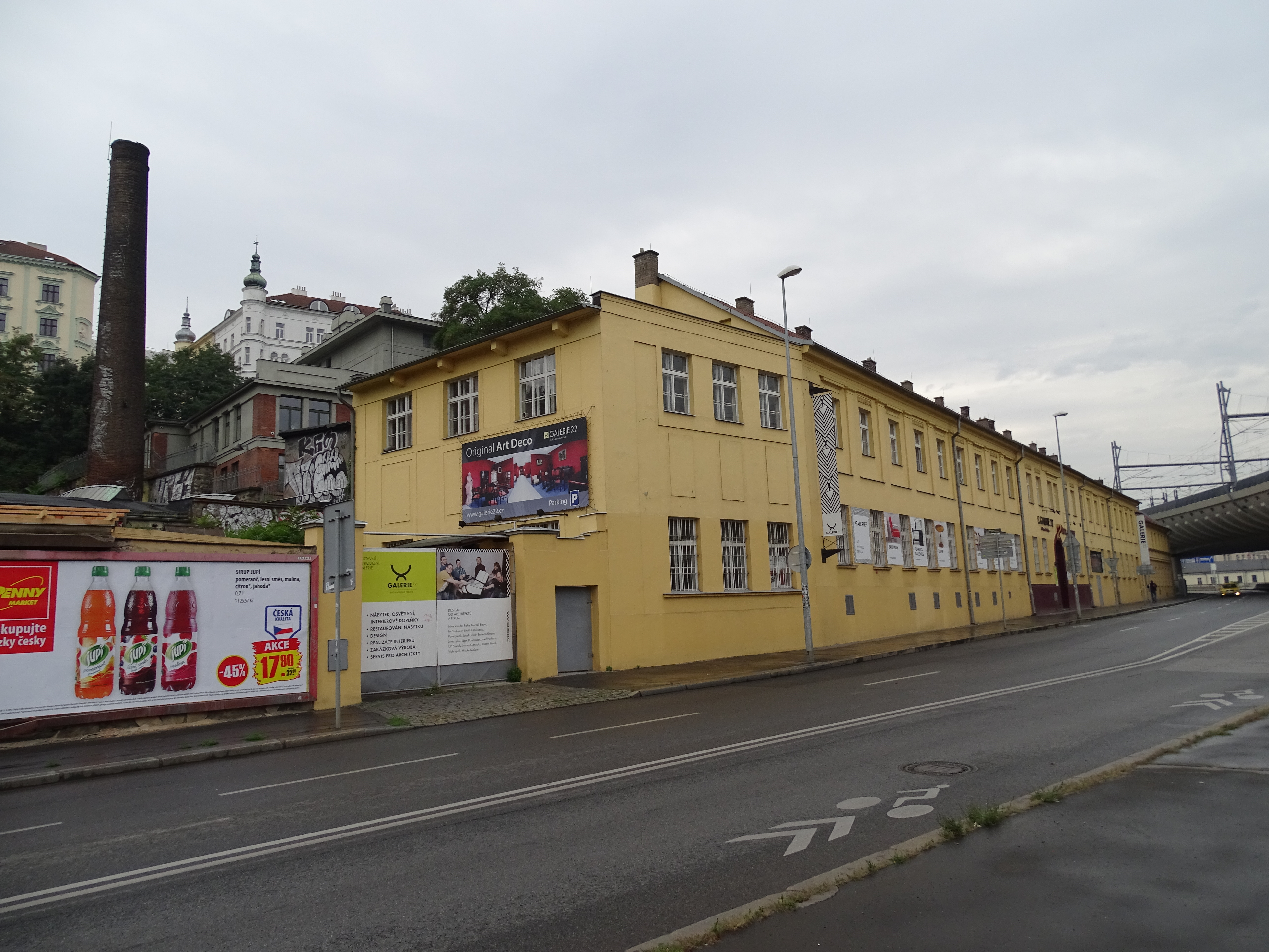 Prague-Žižkov, Czech Republic. Husitská 42/22, Křenovka, Příběnická 2865/3, electrical station.